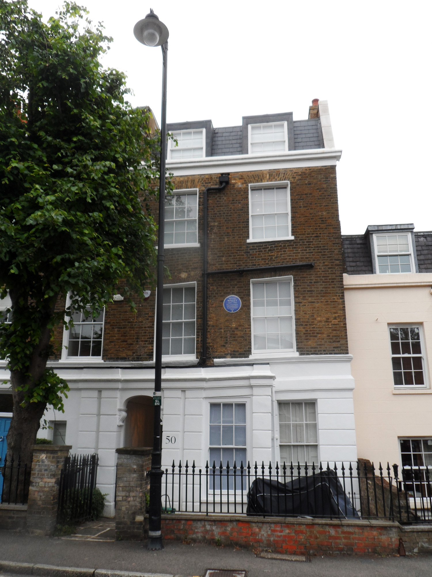 ARTHUR WALEY 1889-1966 Poet Translator and Orientalist lived and died here